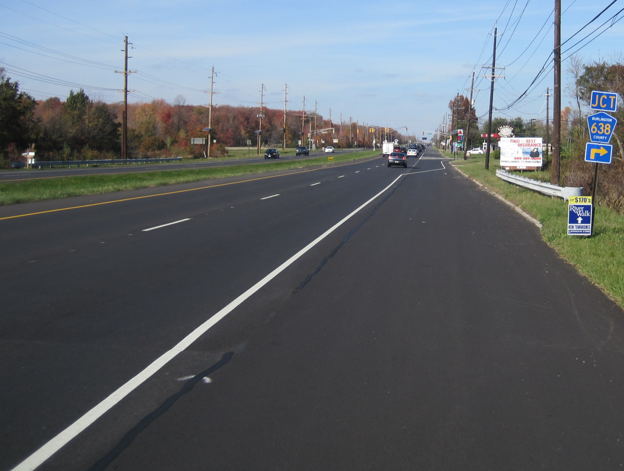 Photo showing the divided portion of County Route 541 Westampton Township, Burlington County, New Jersey. The location is northbound before the CR 638 intersection.